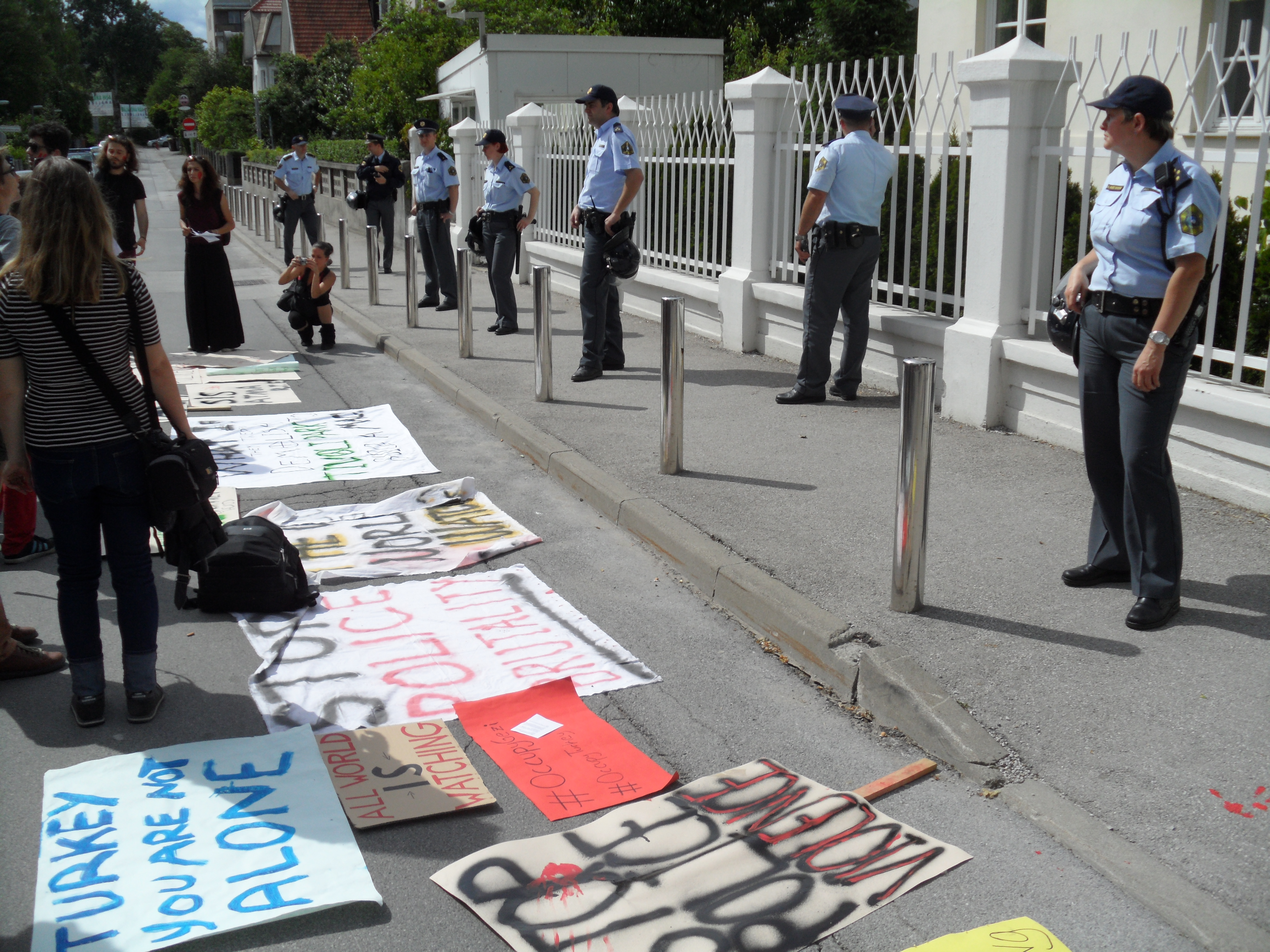 Turkey, You are not alone -- Slovenian solidarity march with the Turkish uprising. Around 100 people gathered on Monday, 3 June 2013, in front of the Turkish embassy in Ljubljana, Slovenia, to condemn the police brutality and to show solidarity with insurections in Turkey. This was the second solidarity march with the Turkish uprising in Ljubljana (the first one was held on Saturday, 1 June 2013).